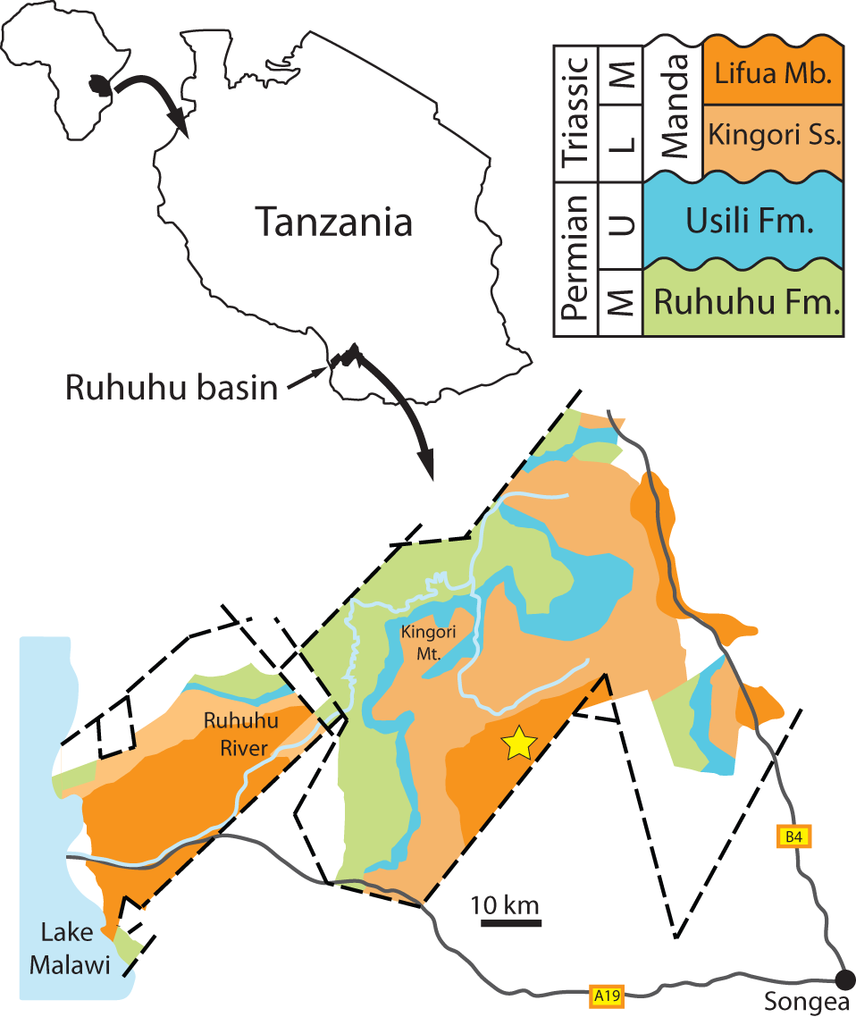 A map displaying Ruhuhu Basin, the Manda Formations, and other regions in Uganda